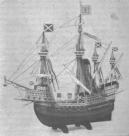 A model of Great Michael (a carrack of the Royal Scottish Navy) in the Royal Scottish Museum.From The Story of Leith by John Russell, published 1922. Downloaded from [1]